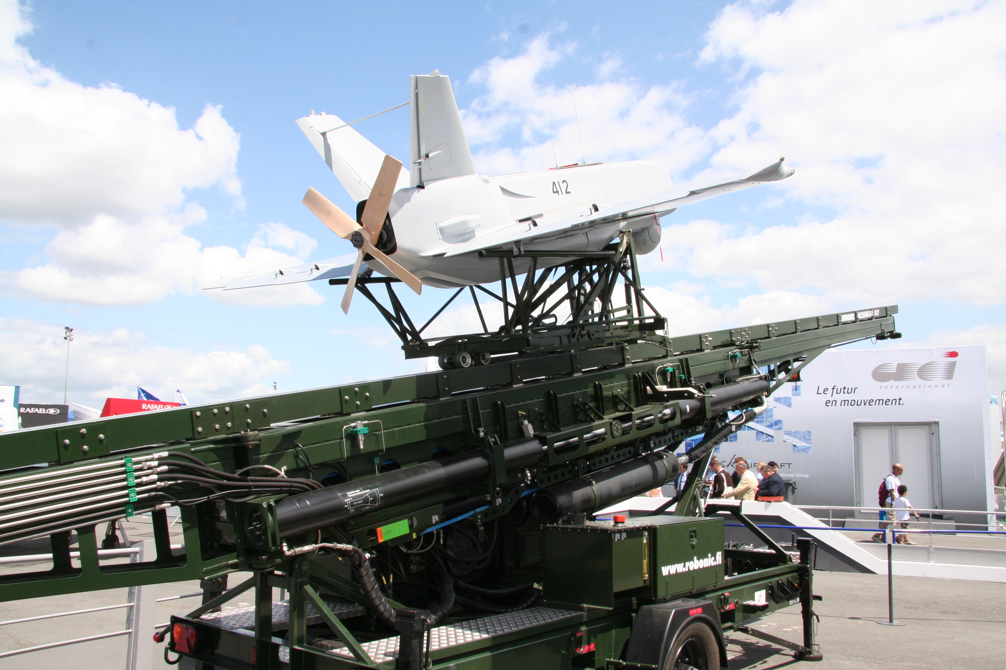 SDTI UAV - Paris Air Show 2009